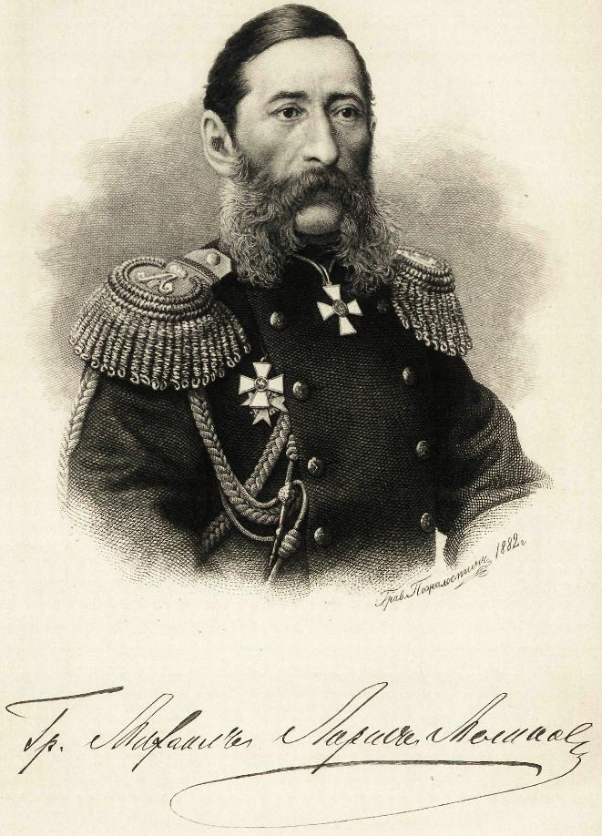 Mikhail Tarielovich Loris-Melikov